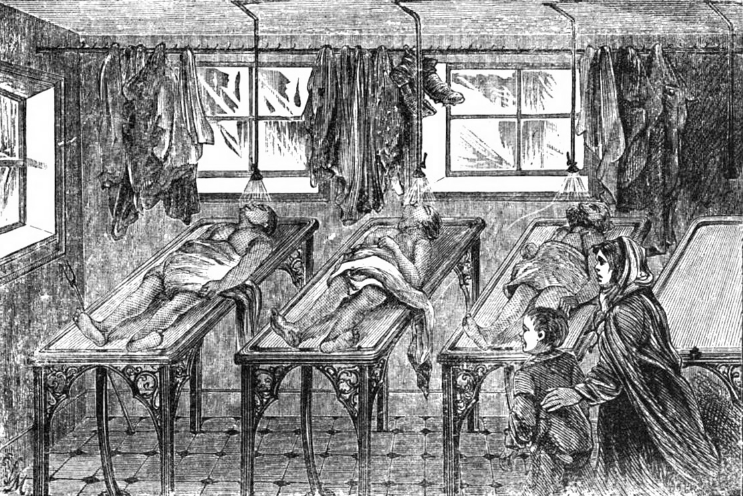 Dead bodies of the rioters awaiting identification, Baltimore, MD 1877